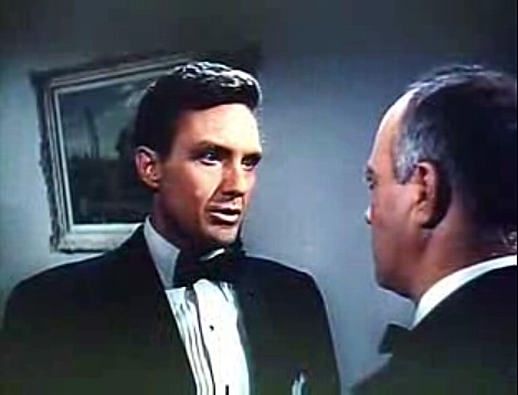 Screenshot of Robert Stack from the trailer for the film Written on the Wind